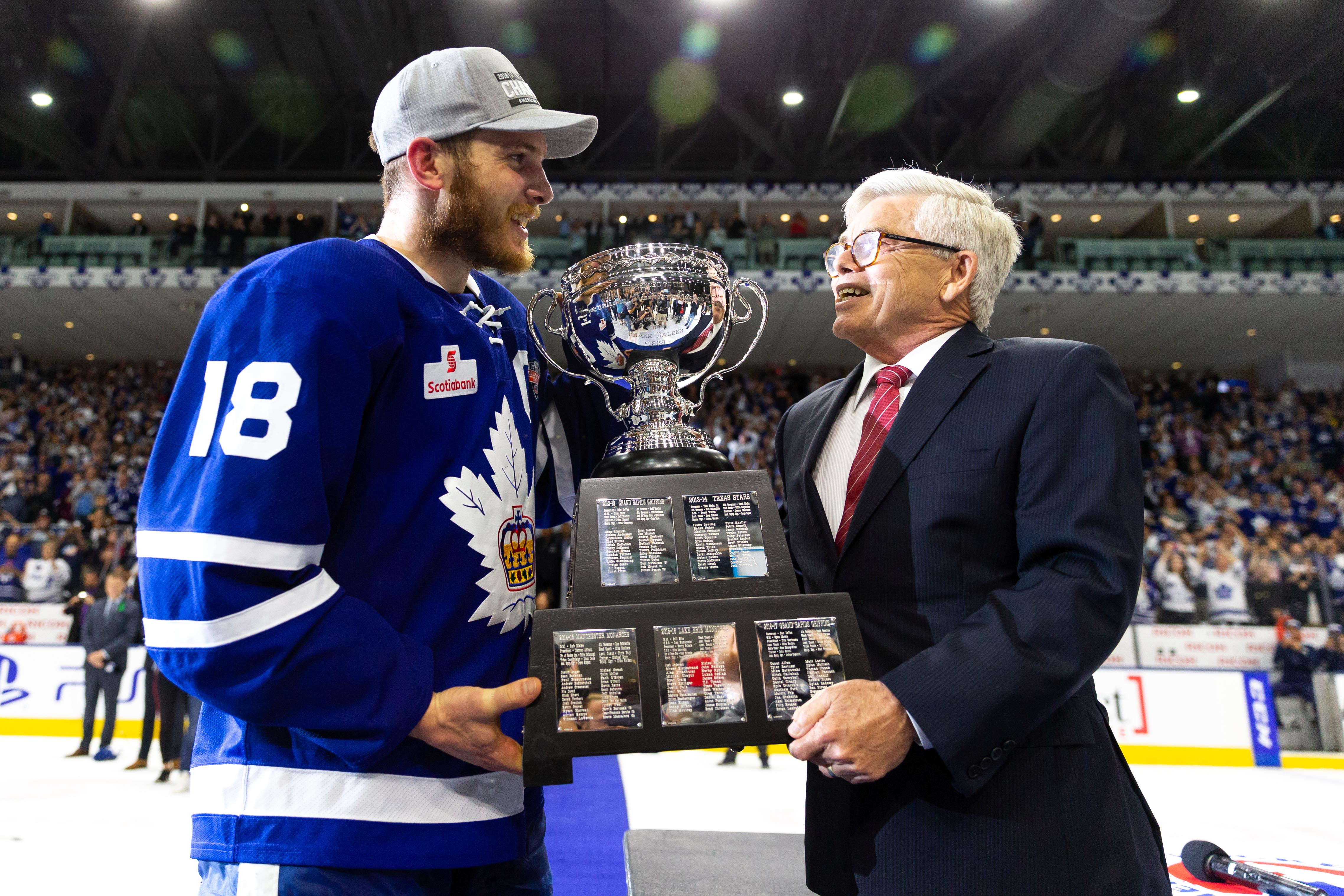 Photo: Thomas Skrlj/AHL